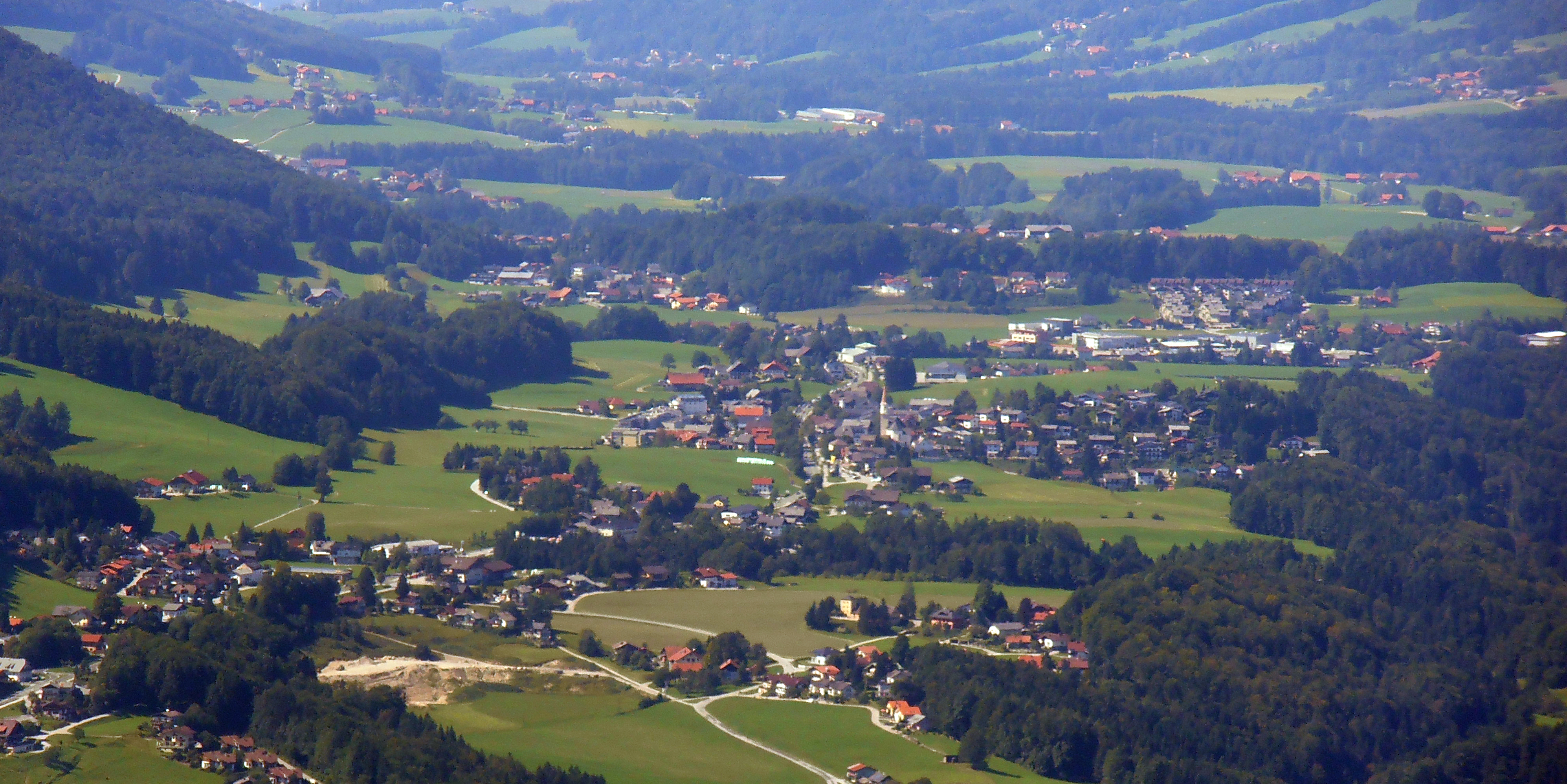 Hof from E (Schober)